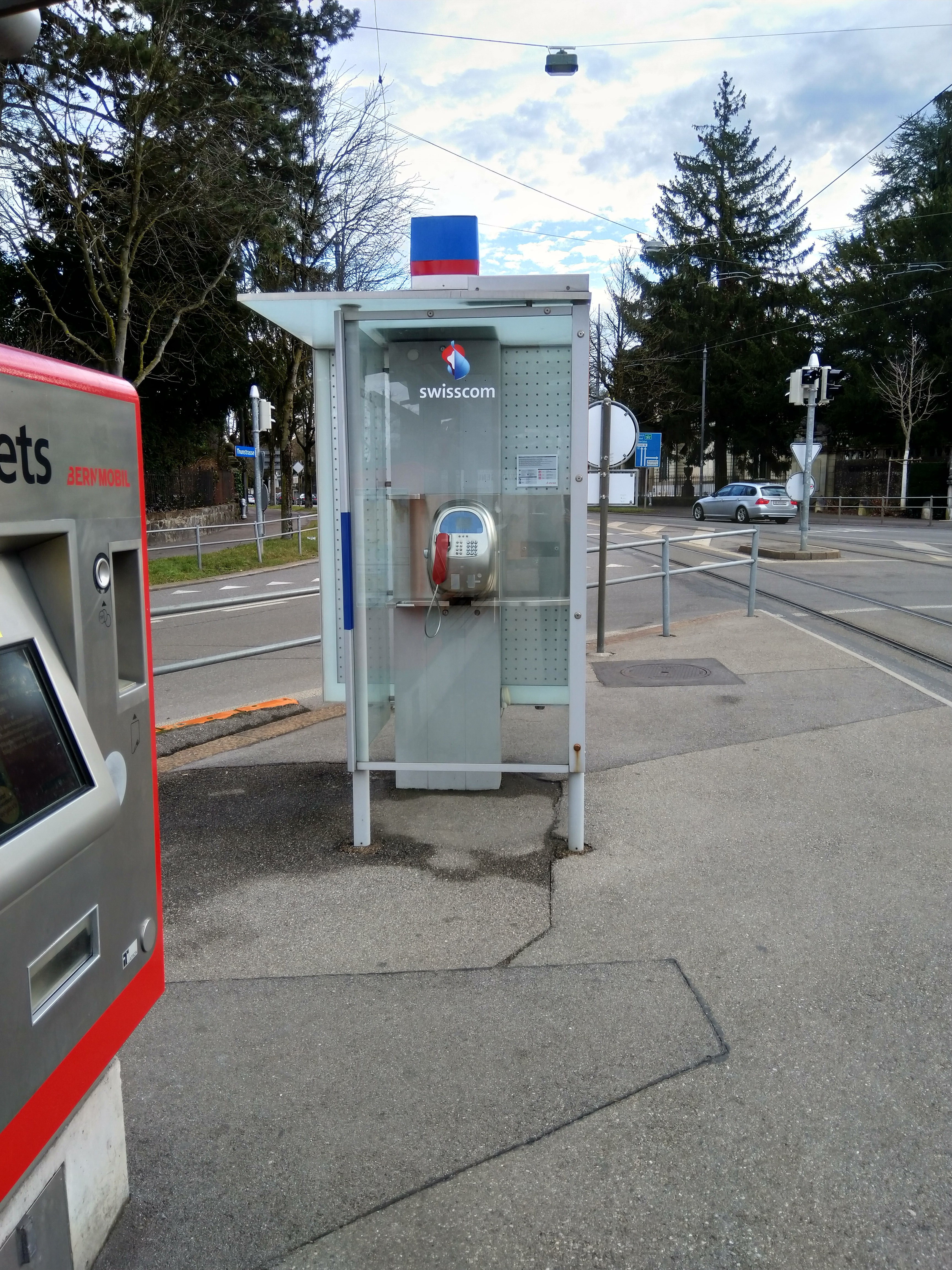 Phone booth operated by Swisscom at Thunplatz in Bern